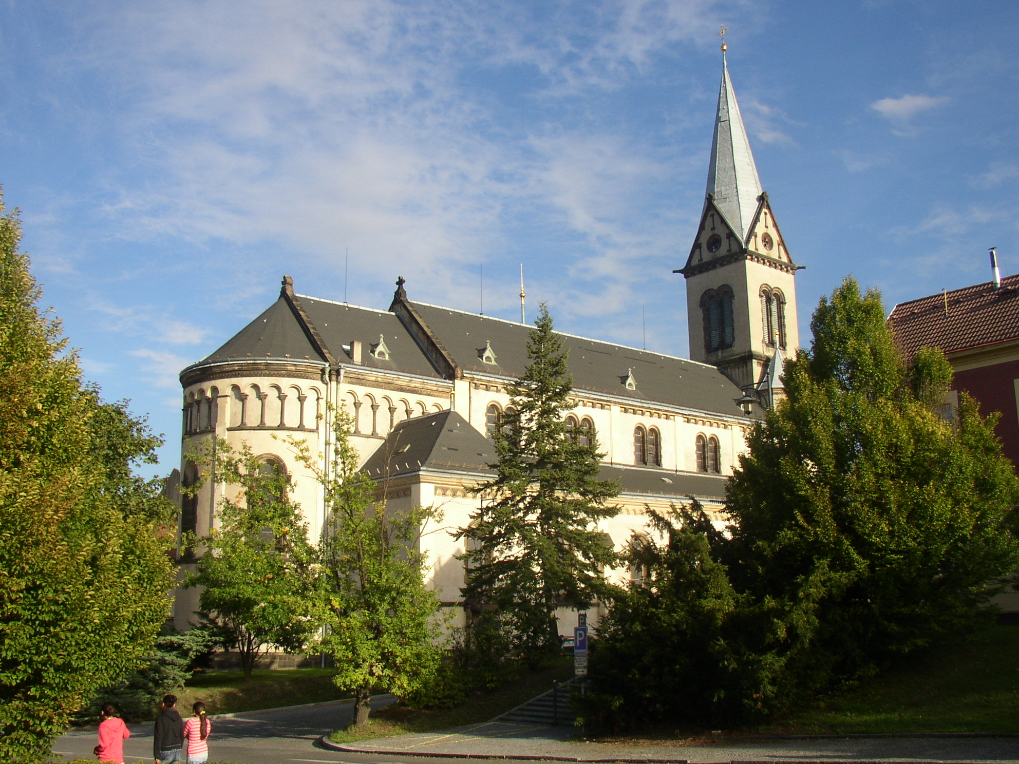 Church of the Assumption of the Virgin Mary, main Roman Catholic church in Kladno, Czech Republic.